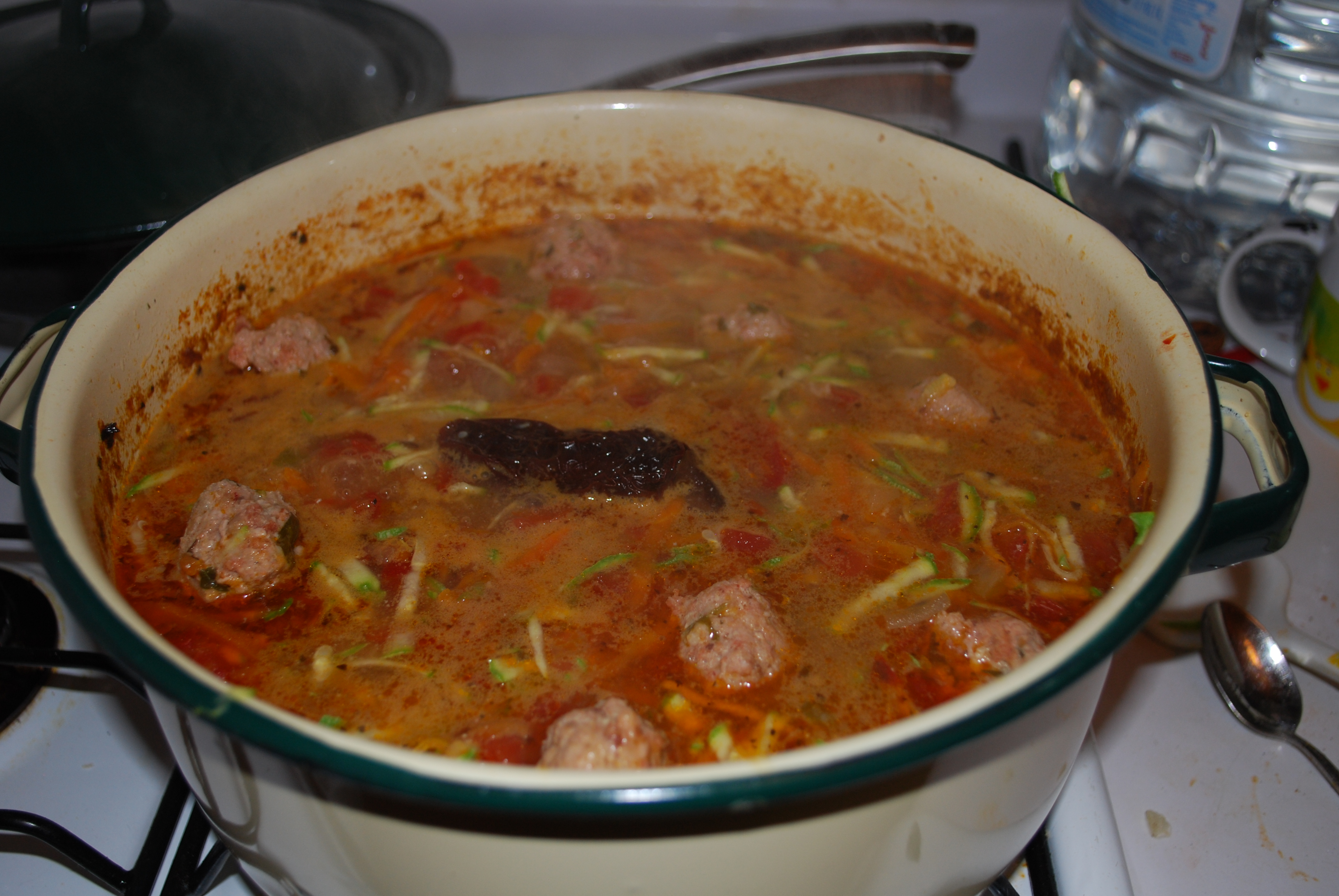 Sopa de albondigas or Mexican meatball soup simmering on a stove.